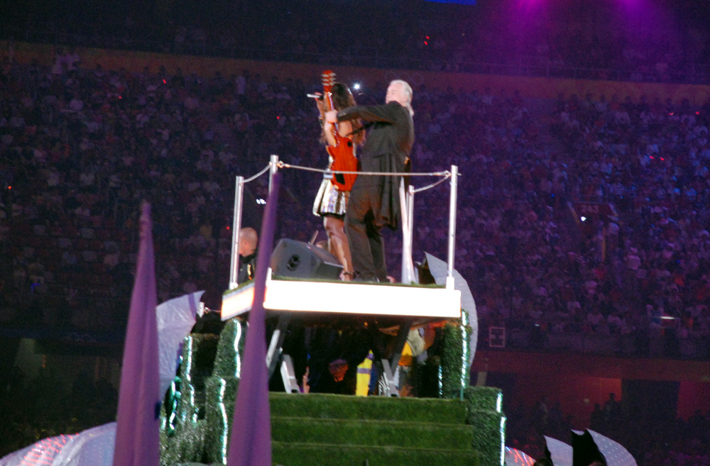 Jimmy page playing Whole Lotta Love during the closing ceremony of the Beijing Olympic games, august 24th 2008, at the Bird's Nest